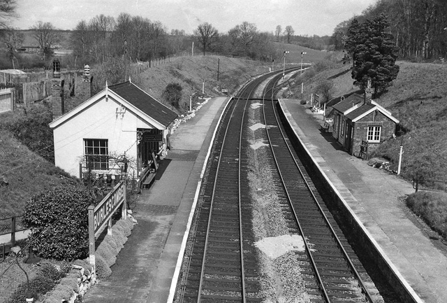 Burlescombe railway station. View NE, towards Taunton etc.; ex-Great Western London/Bristol etc. - Taunton - Exeter - Plymouth - Penzance main line. This station was closed 5/10/64, to allow freer running for fast trains. Note the wide spacing between the platforms, a legacy of Brunel's Broad Gauge.